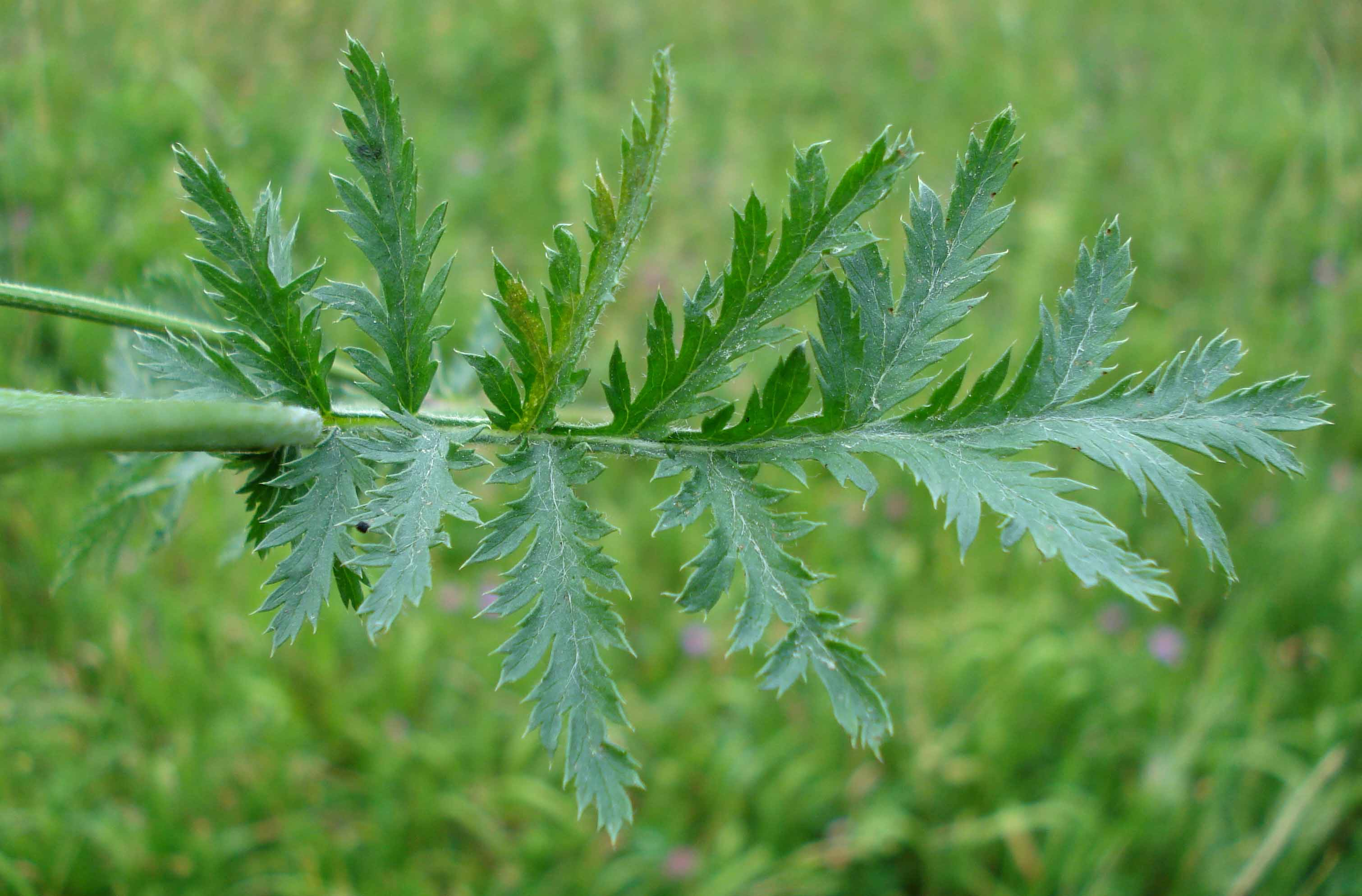 Tanacetum corymbosum (Unterfranken, Germany)